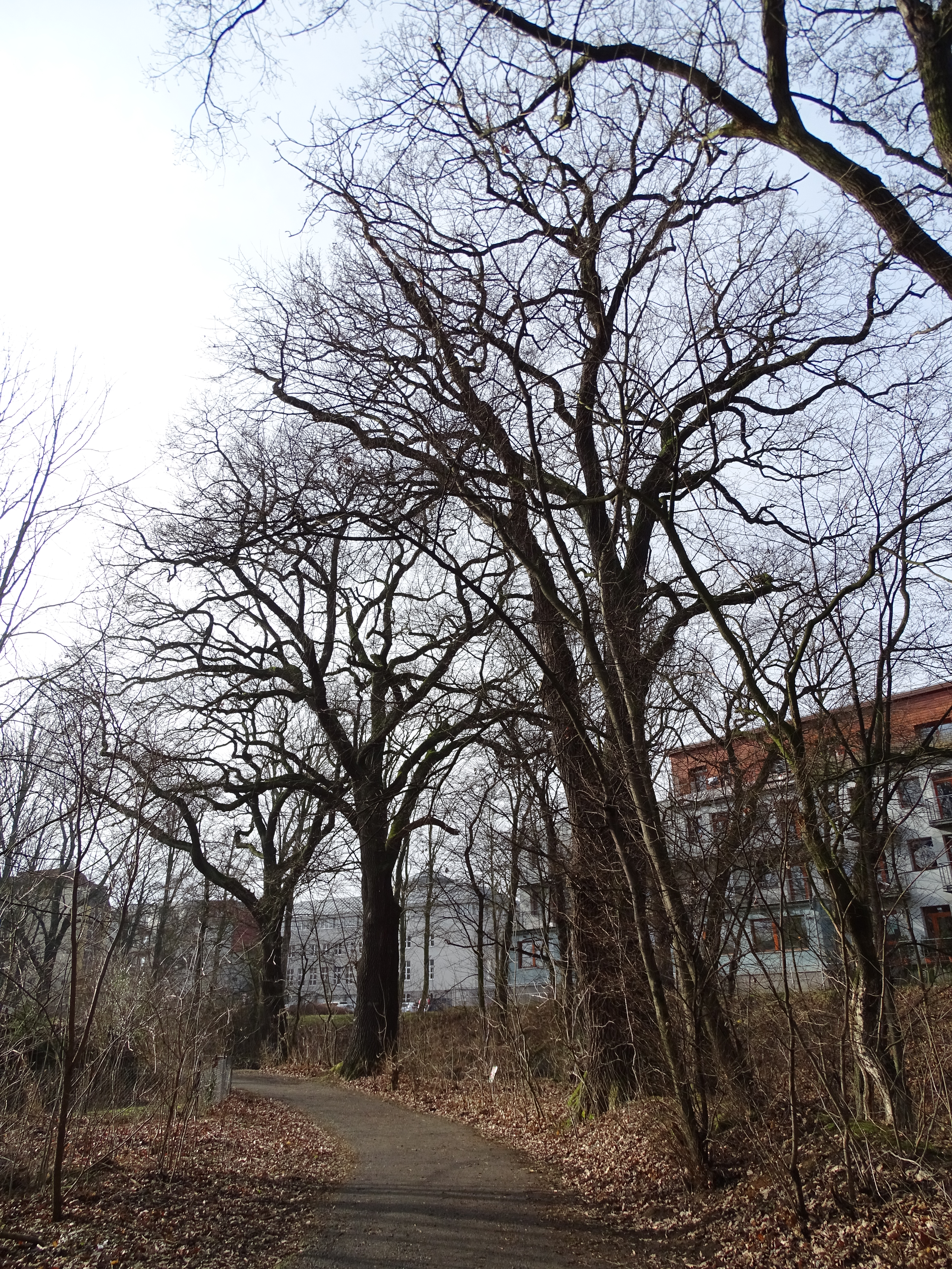 Prague-Uhříněves, Czech Republic. Říčanský Creek, a group of memorable trees. [1]